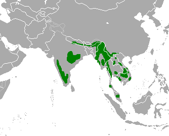 Range map of gaur (Bos gaurus) according to Duckworth, J.W., Steinmetz, R., Timmins, R.J., Pattanavibool, A., Than Zaw, Do Tuoc & Hedges, S. 2008. Bos gaurus. In: IUCN 2011. IUCN Red List of Threatened Species. Version 2011.2. . Downloaded on 04 March 2012.